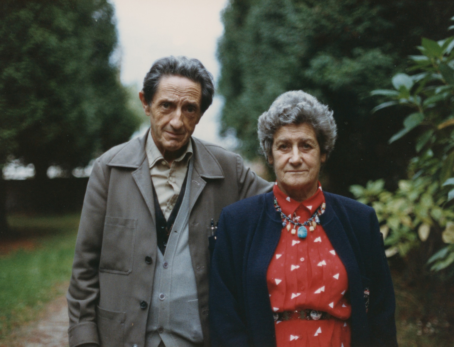 Isaac Diaz Pardo junto a su esposa en Castro, Galicia.